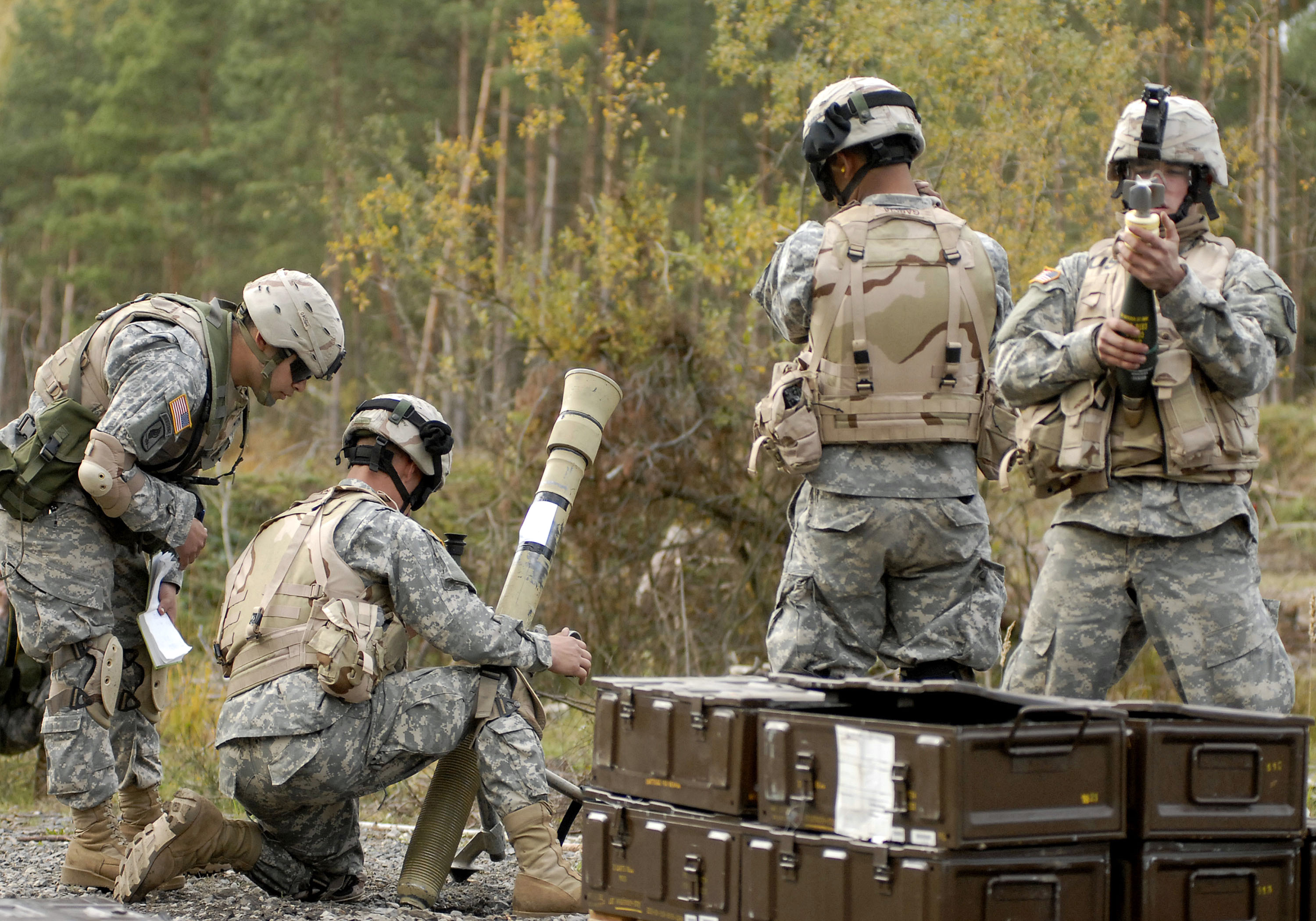 Soldiers from 173rd Airborne Battalion Combat Team, inspect an 81mm mortar prior to conducting live fire at the Joint Multinational Training Center. During training, Soldiers equipped with Interceptor Alpha outer tactical vests, and LBE, prepare the M252 81mm mortar system. The 173rd Airborne Battalion Combat Team are training together for the first time since their transformation into a BCT and in preparation for deployment for Operation Iraqi Freedom. (U.S. Army photo by Gary l. Kieffer) (Released)